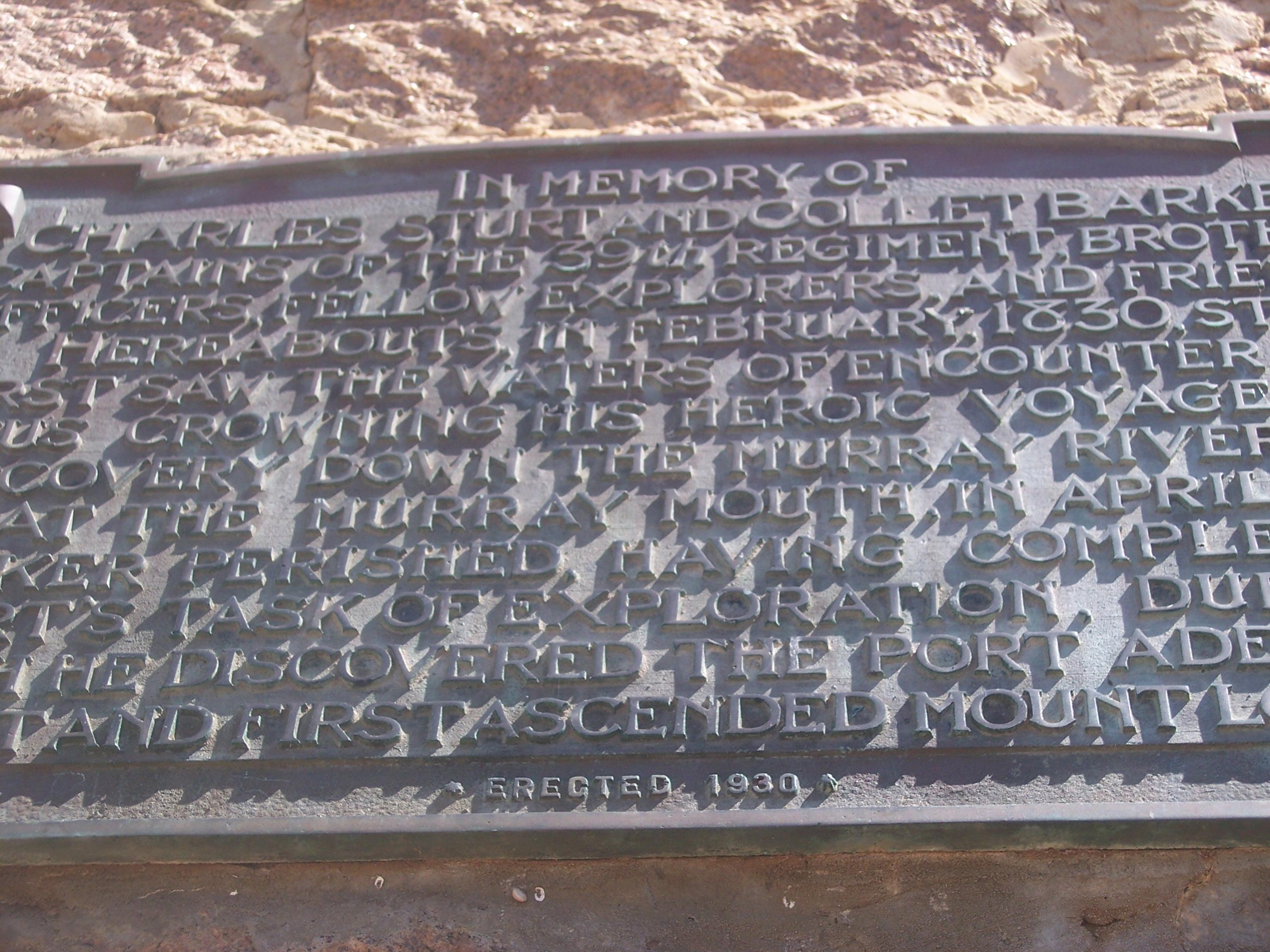 Plaque on a monument dedicated to Captain Charles Sturt and Collet Barker, on Hindmarsh Island. The plaque is somewhat cut off at the sides in this photograph, and reads as follows:In memory of Charles Sturt and Collet Barker, captains of the 39th Regiment, brothers, officers, fellow explorers, and friends. Hereabouts in February 1830, Sturt first saw the waters of Encounter Bay, thus crowning his heroic voyage of discovery down the Murray River. At the Murray Mouth, in April 1831, Barker perished, having completed Sturt's task of exploration, during which he discovered the Port Adelaide inlet and first ascended Mount Lofty.Erected 1930